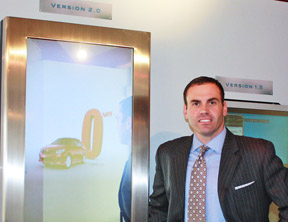 Brian Reid, founder of Mirrus.